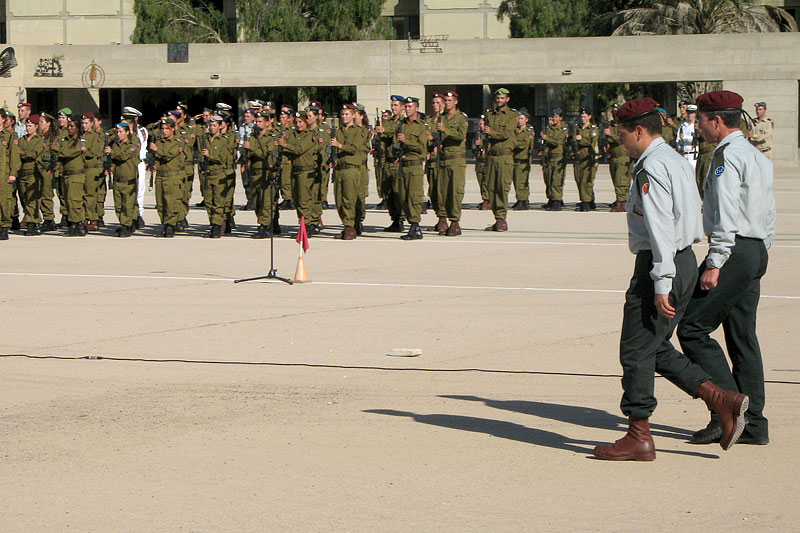 IDF Officers Graduation Ceremony, at Bahad 1 - IDF Officers school. Aluf Elazar Shteren (1st from the right) and Aluf Mishne Aharon Haliva